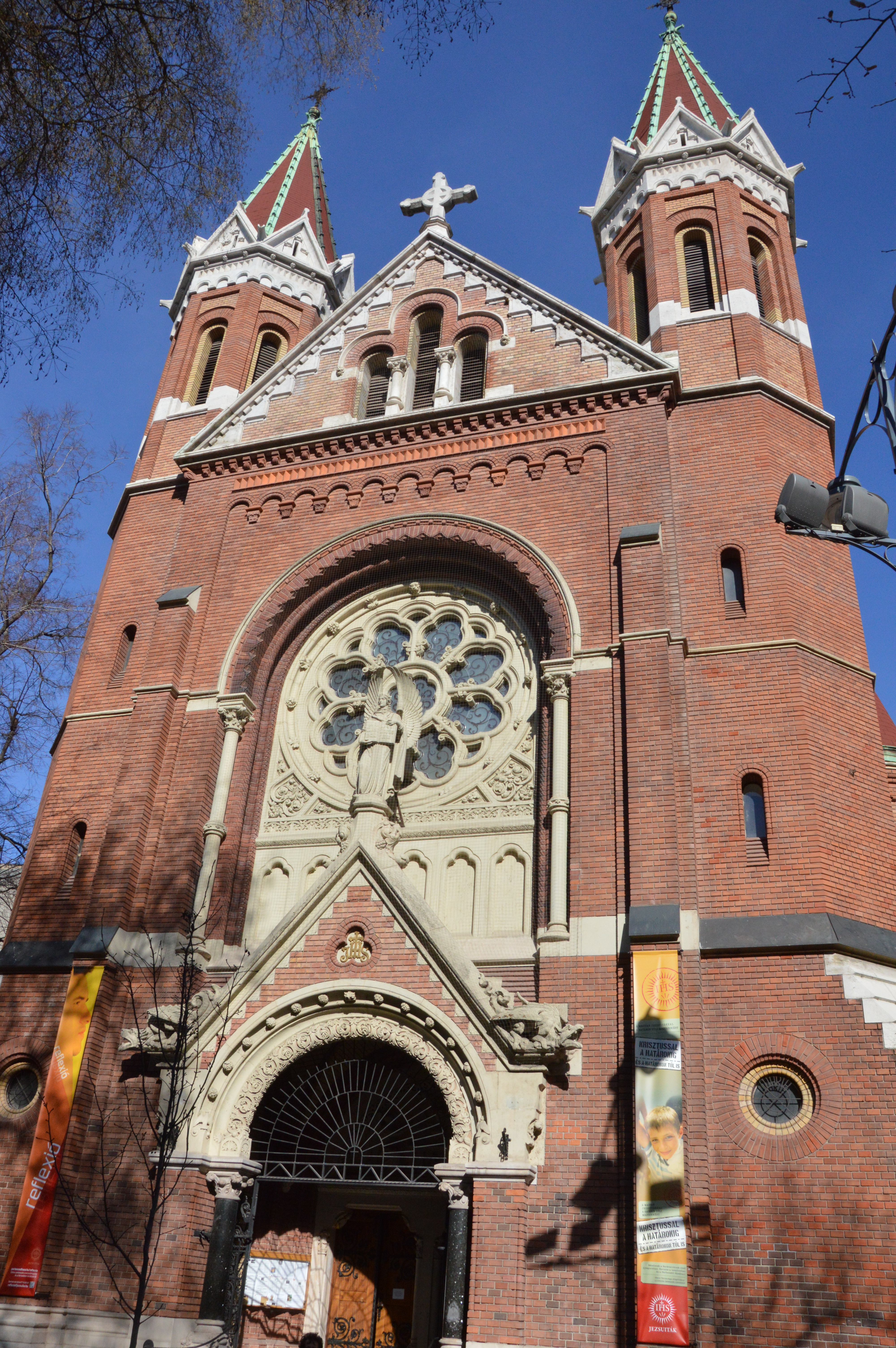 Jézus Szíve Church, Mária utca 25 @ Lőrinc pap tér, Budapest, Hungary